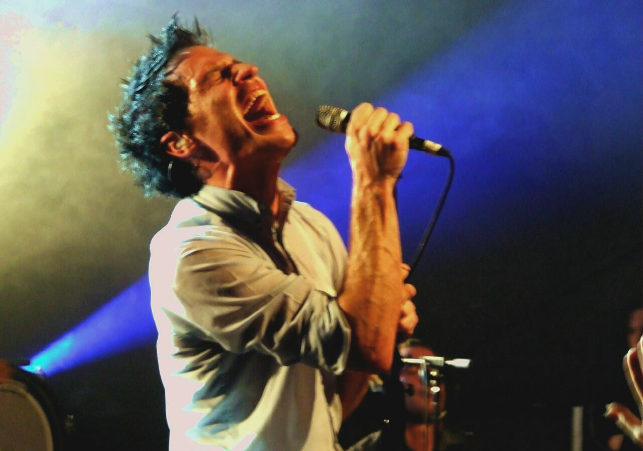 Paul Meaney of Mute Math